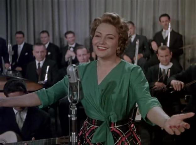 Nilla Pizzi in a scene of the film Ci troviamo in galleria (1953) directed by Mauro Bolognini